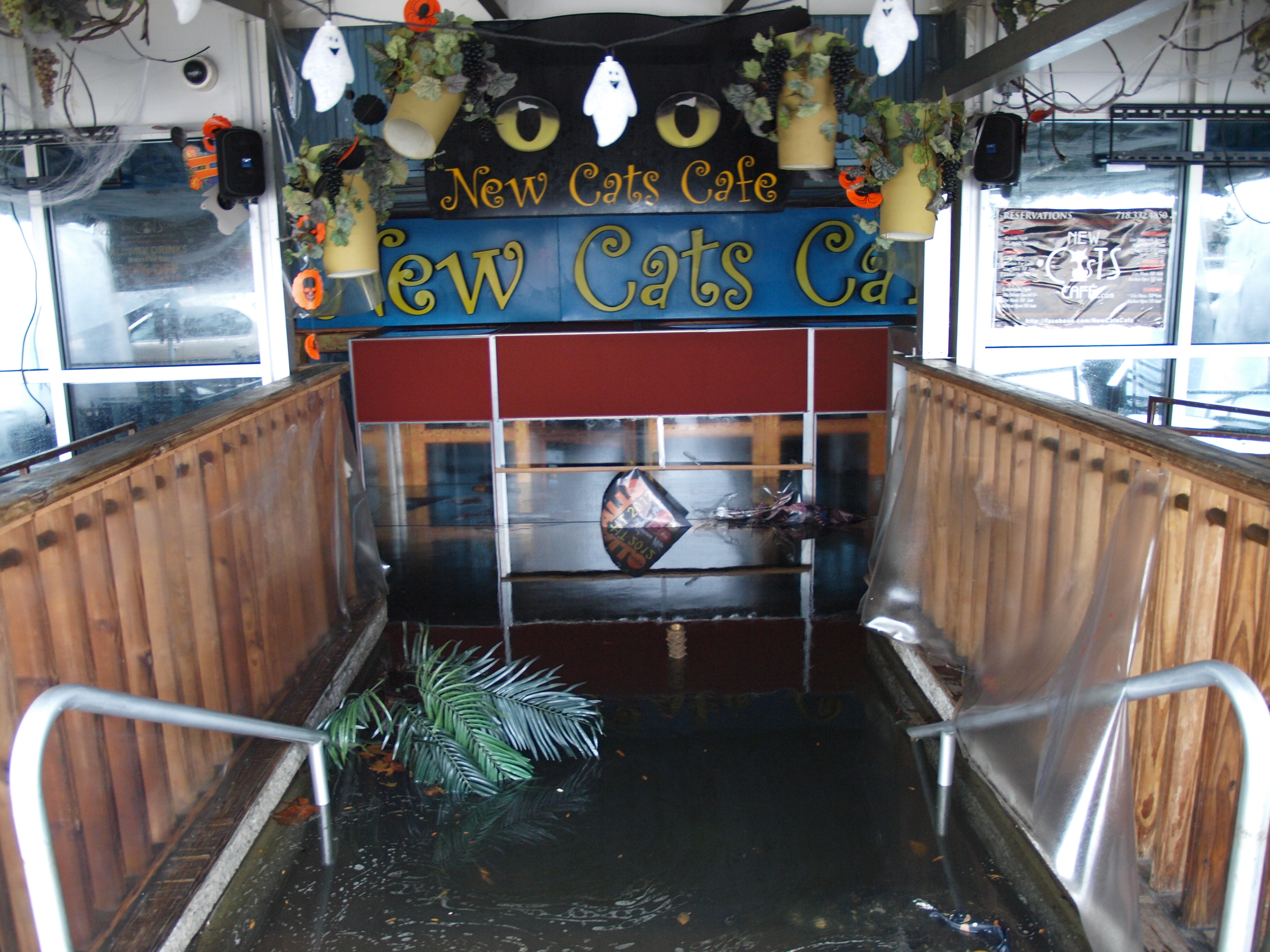 Flooding caused by Hurricane Sandy on Emmons Ave, Brooklyn, NY